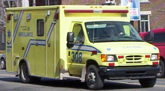 Montreal Ambulance Truck photographed in Montreal, Quebec, Canada